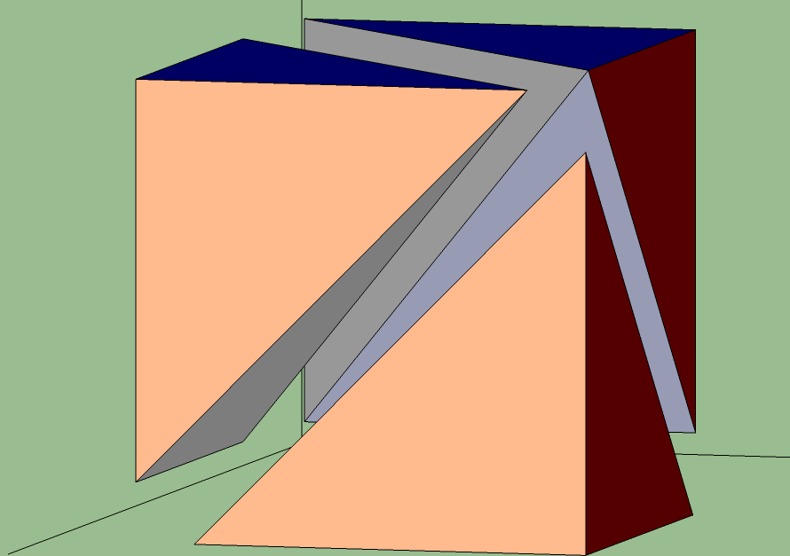 A cube divided in 3 equivalent pyramids